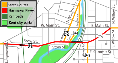 Map showing Haymaker Parkway in Kent, Ohio, a rerouted section of Ohio State Route 59. Originally uploaded to English Wikipedia 3 August 2007 and updated 7 December 2007.